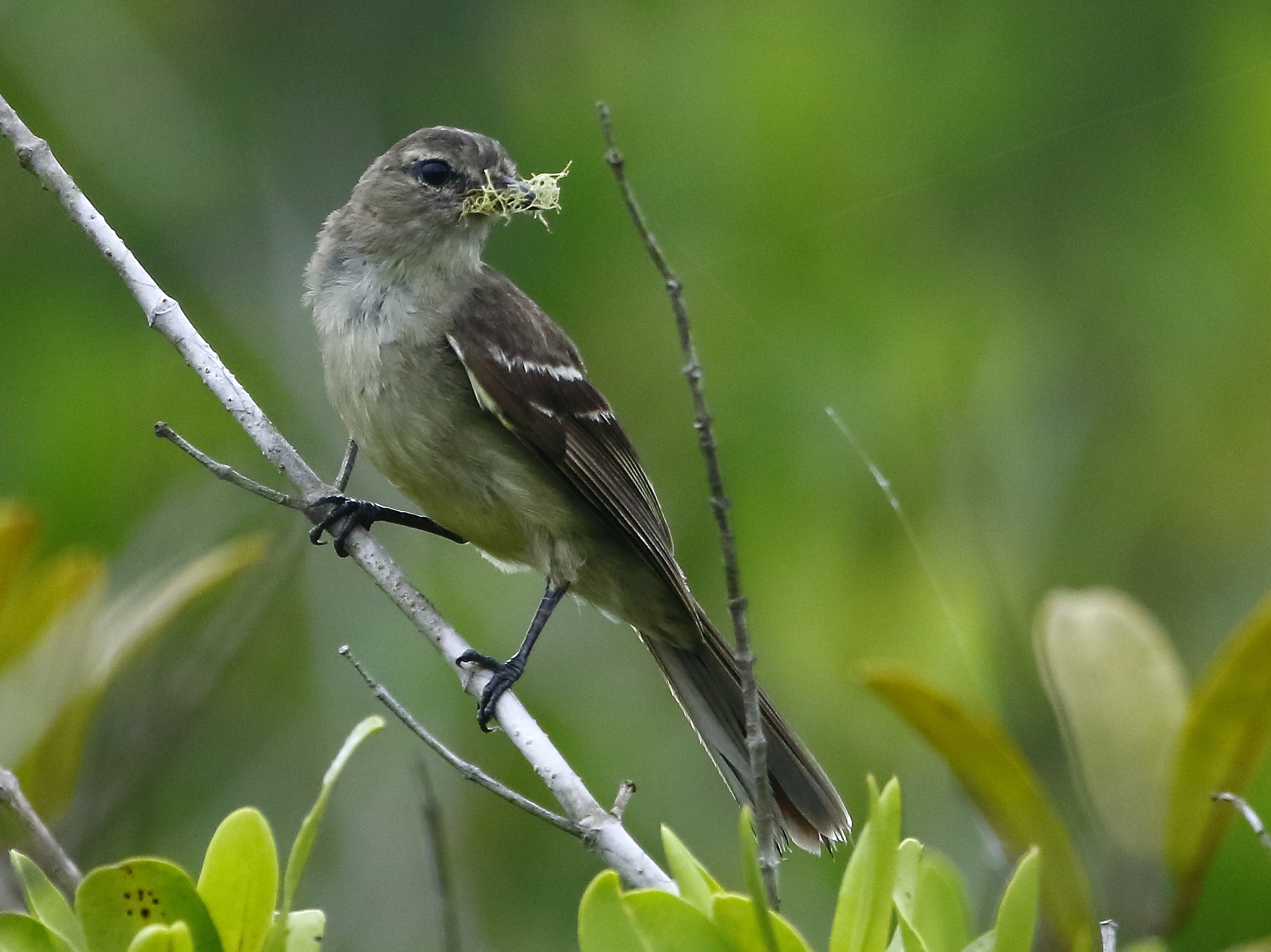 Highland elaenia; Bertioga, São Paulo, Brazil